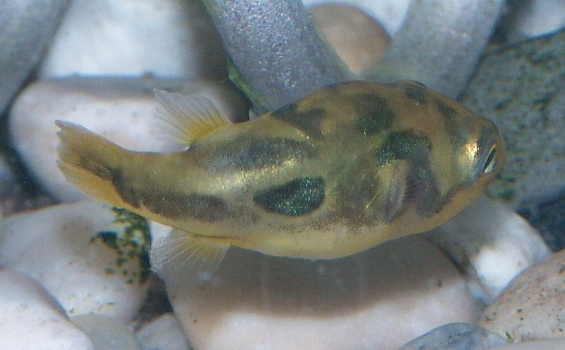 Behind